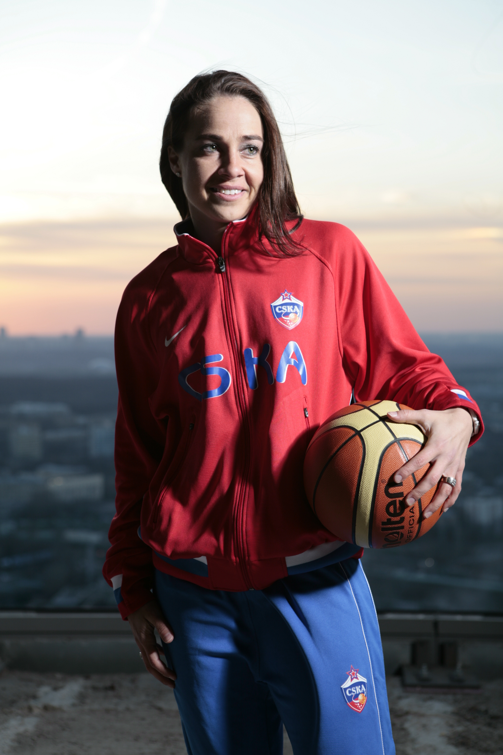 Becky Hammon